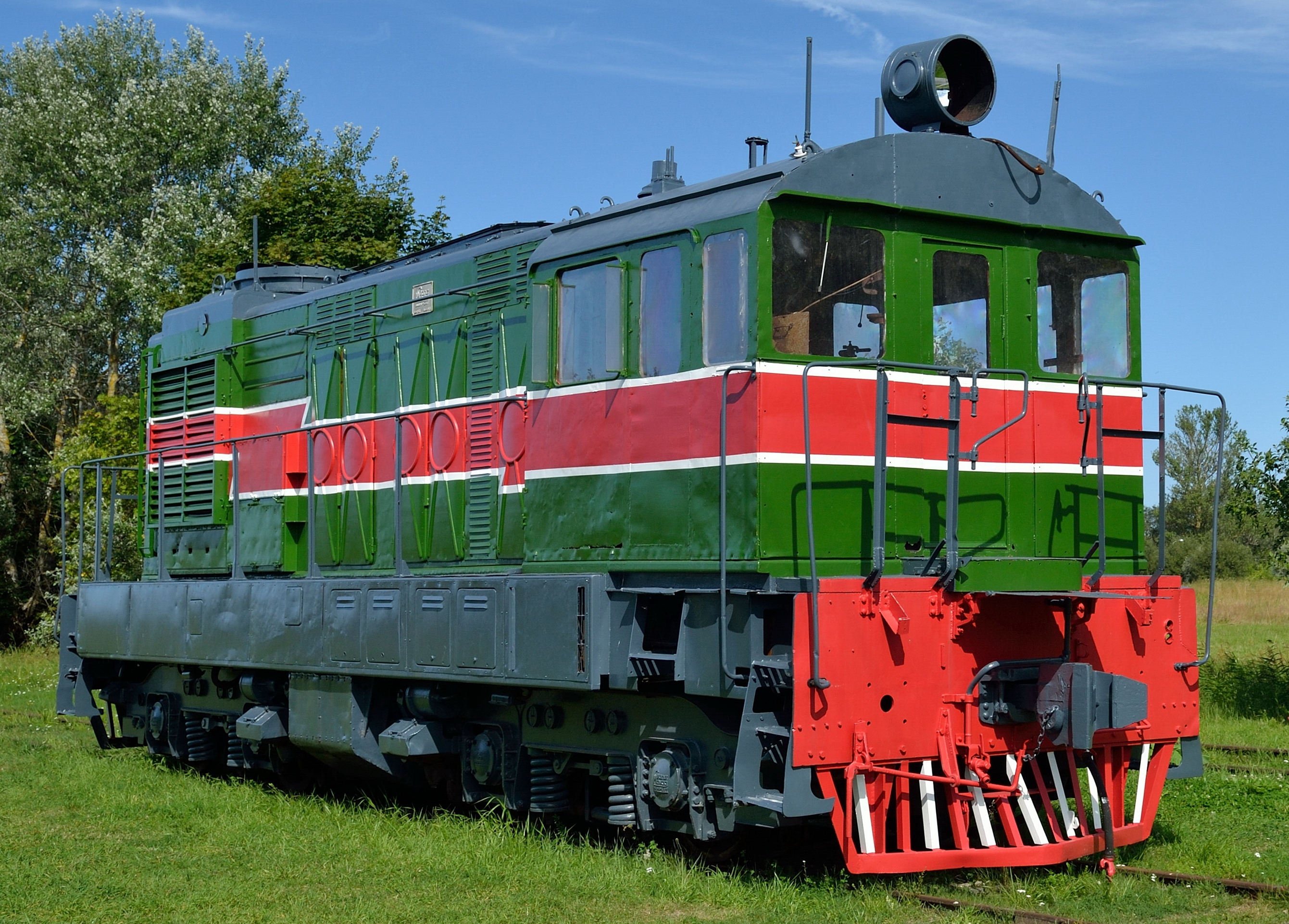 DVM4 model locomotive #VME 1-116 in Haapsalu, Estonia in 2012. It was built in 1961 at the Ganz–MÁVAG factory in Hungary for the USSR railways.